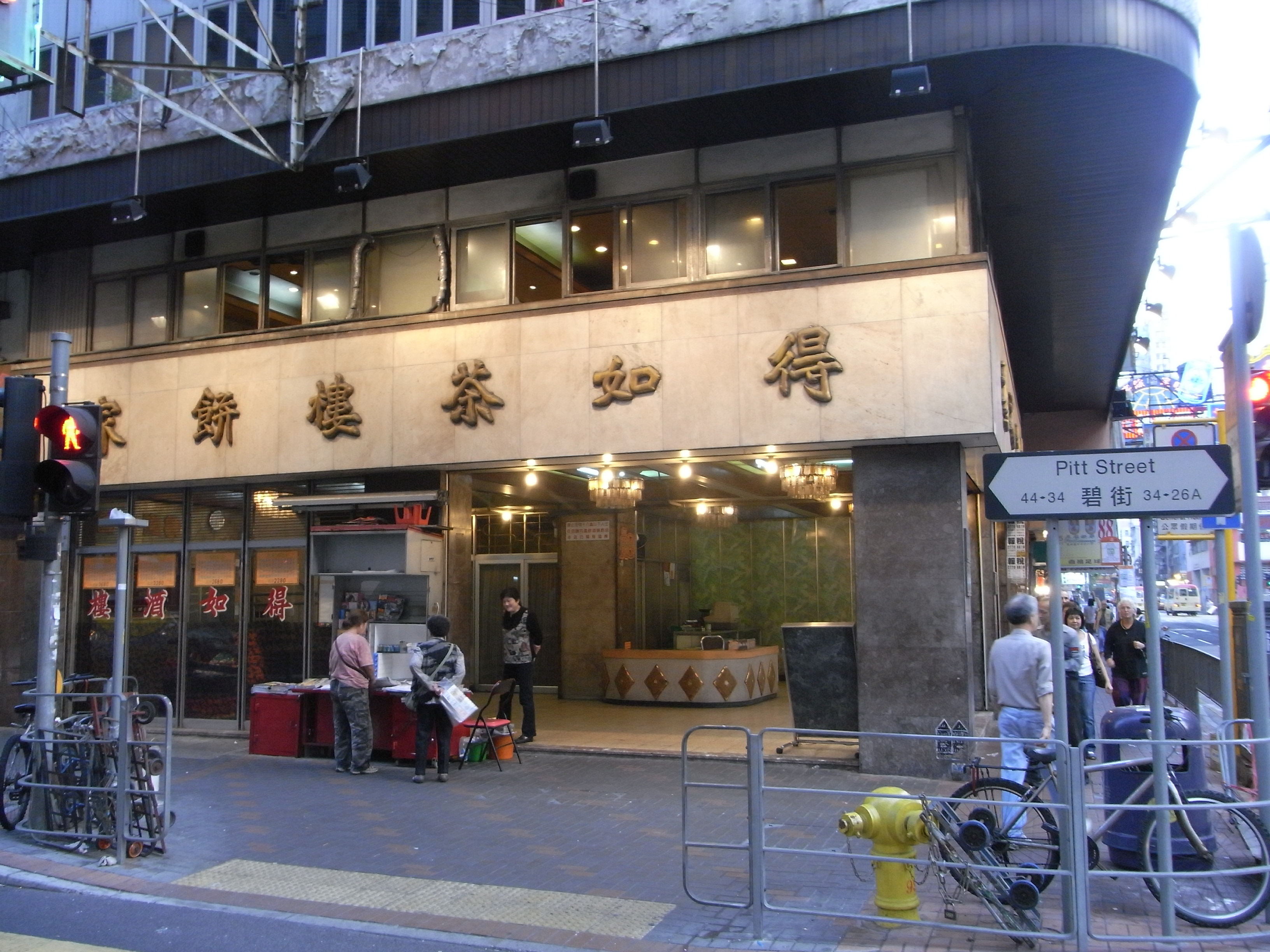 油麻地 碧街 得如茶樓